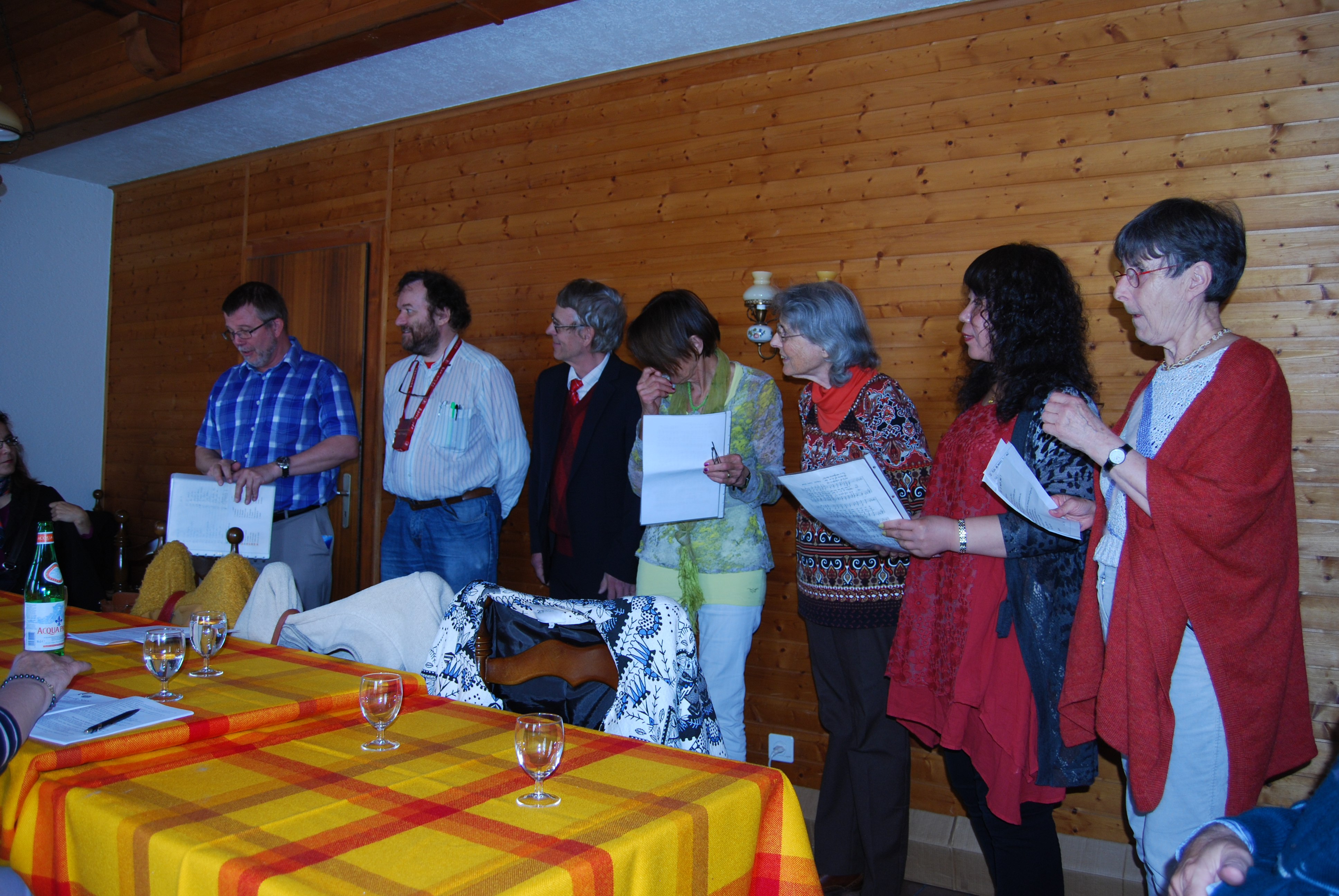 Swiss Esperanto Coir at White Casino, Yverdon-les-Bains, canton of Vaud, SwitzerlandEsperanto: Svisa Esperanto-Ĥoro en Blanka Kazino, Yverdon-les-Bains, Kantono Vaŭdo, Svislando